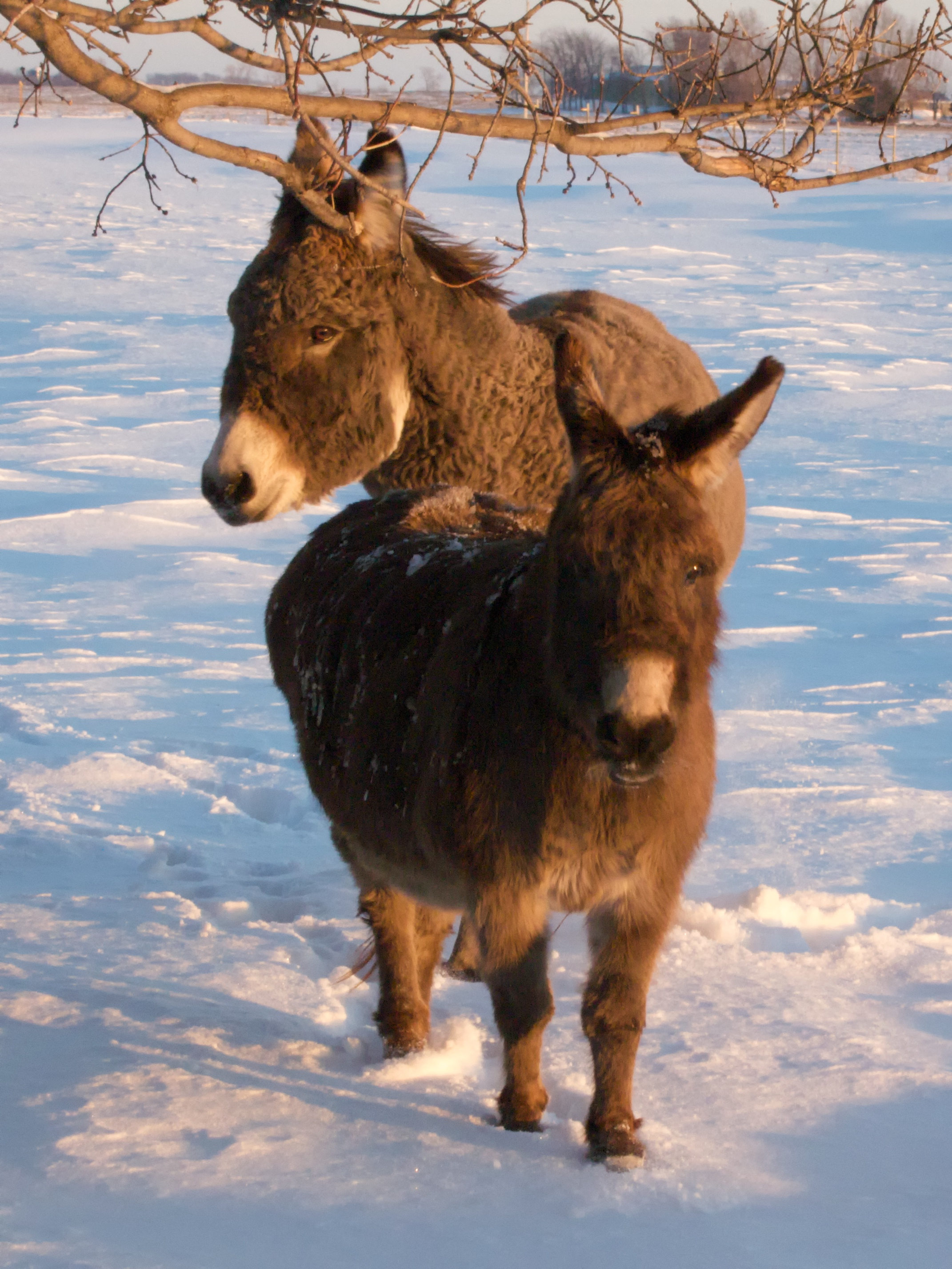 A miniature and a small standard donkey in Minnesota, USA, in January